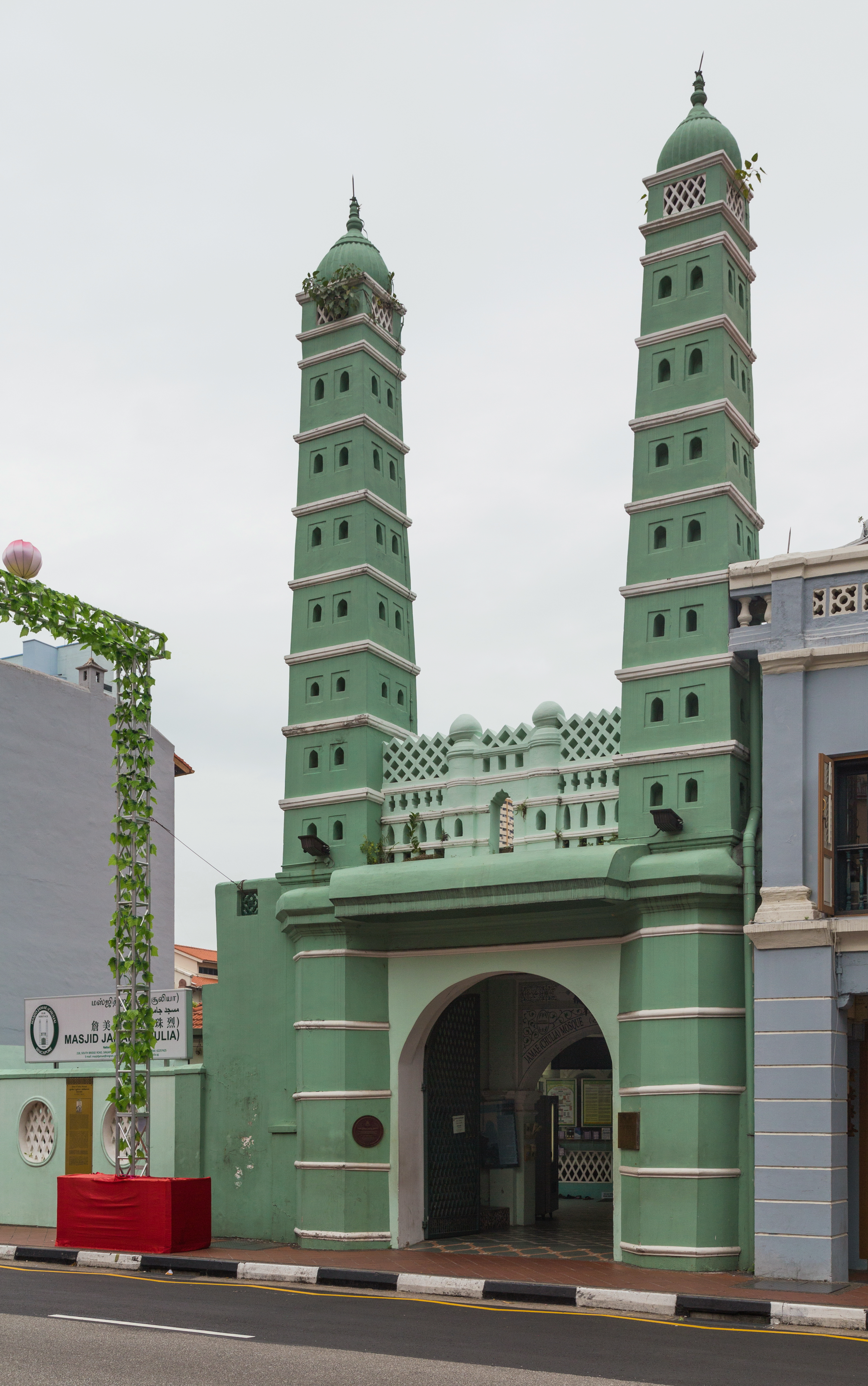 Jamae Mosque. Chinatown, Central Region, Singapore.